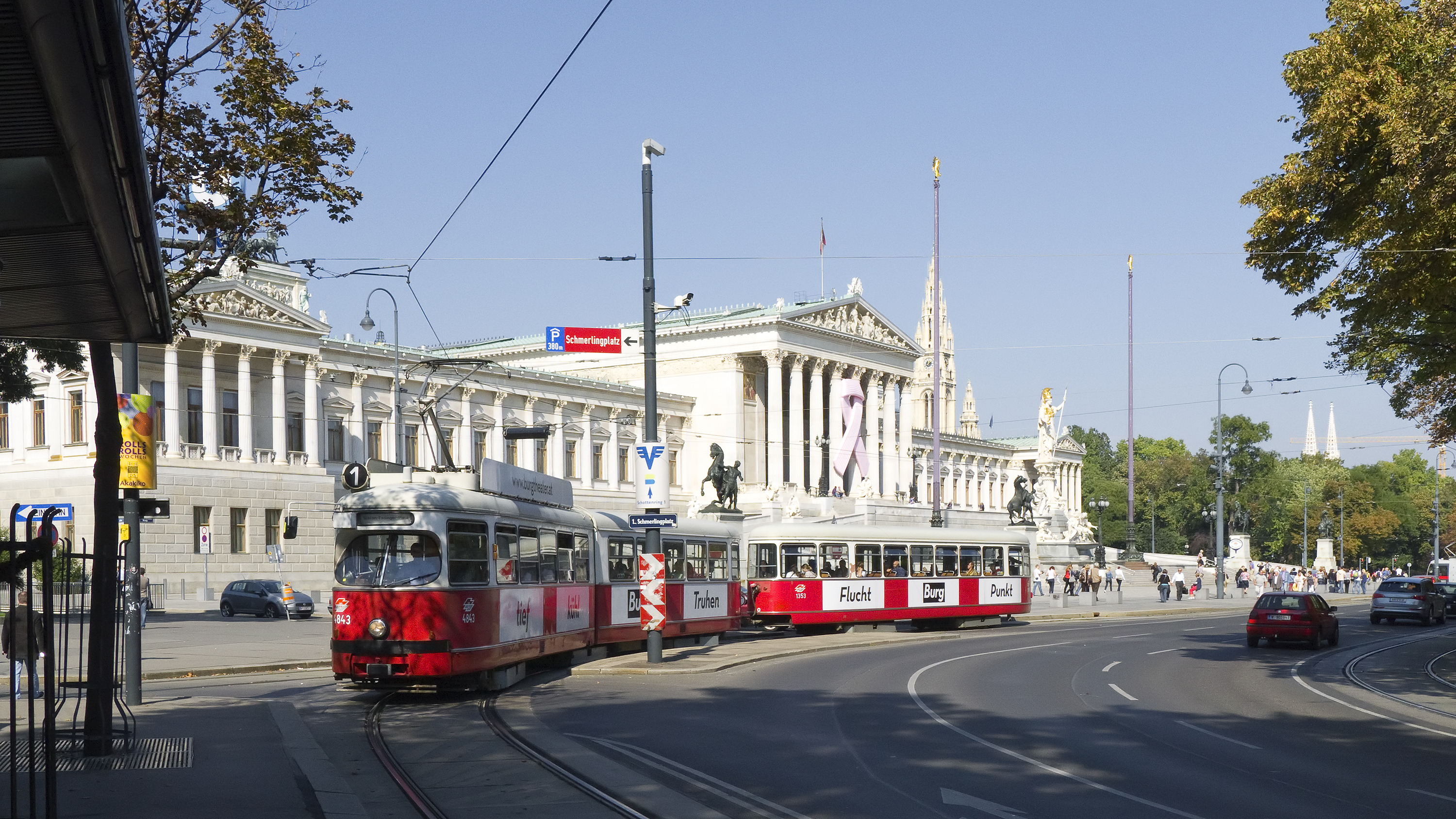 Tram Line 1, Station Dr.-Karl-Renner-Ring, Vienna